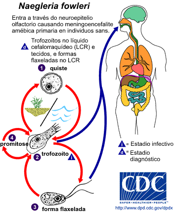 Diagram of Nagleria fowleri infection